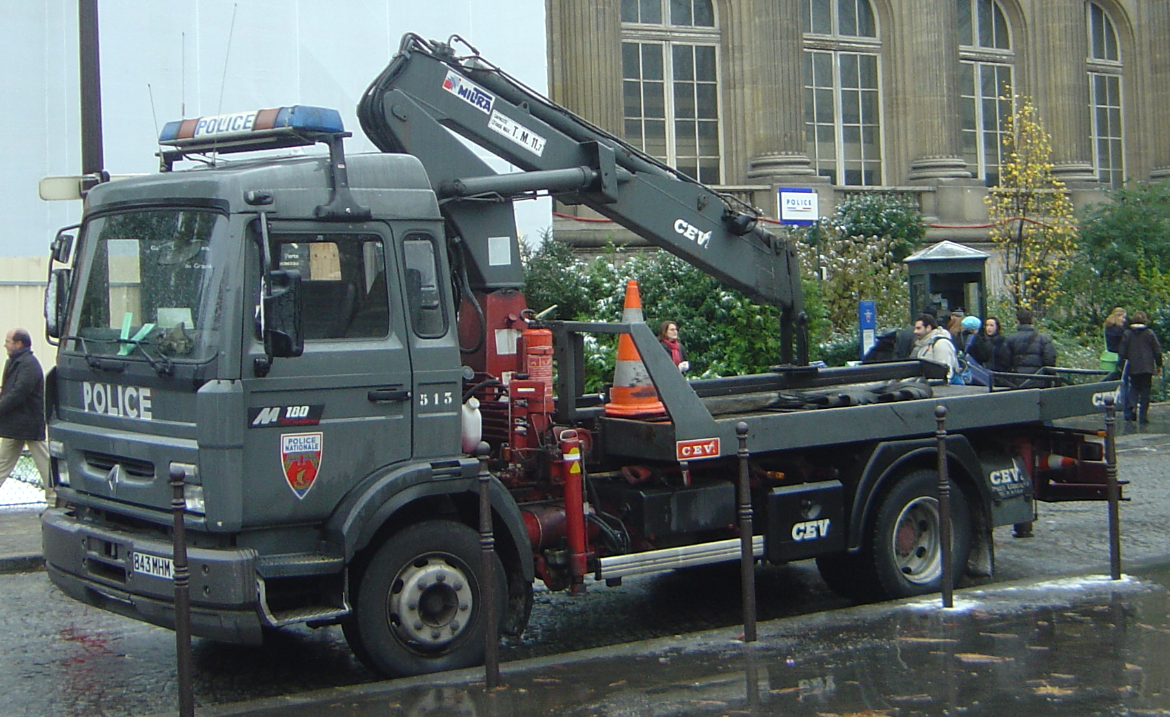 French National Police forces in front of the Grand Palais in Paris, France